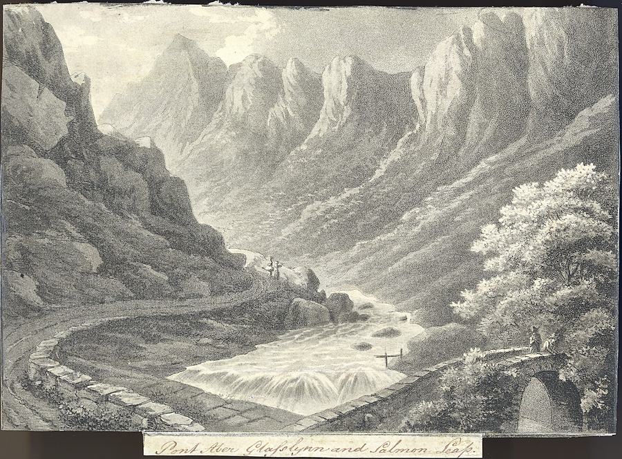 A view along the Pass of Aberglaslyn, showing anglers on the bridge over the Afon Glaslyn, and people walking alon the road.